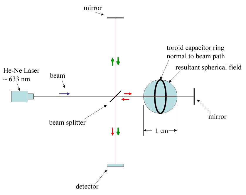 Proposed White-Juday Warp Field Interferometer concept